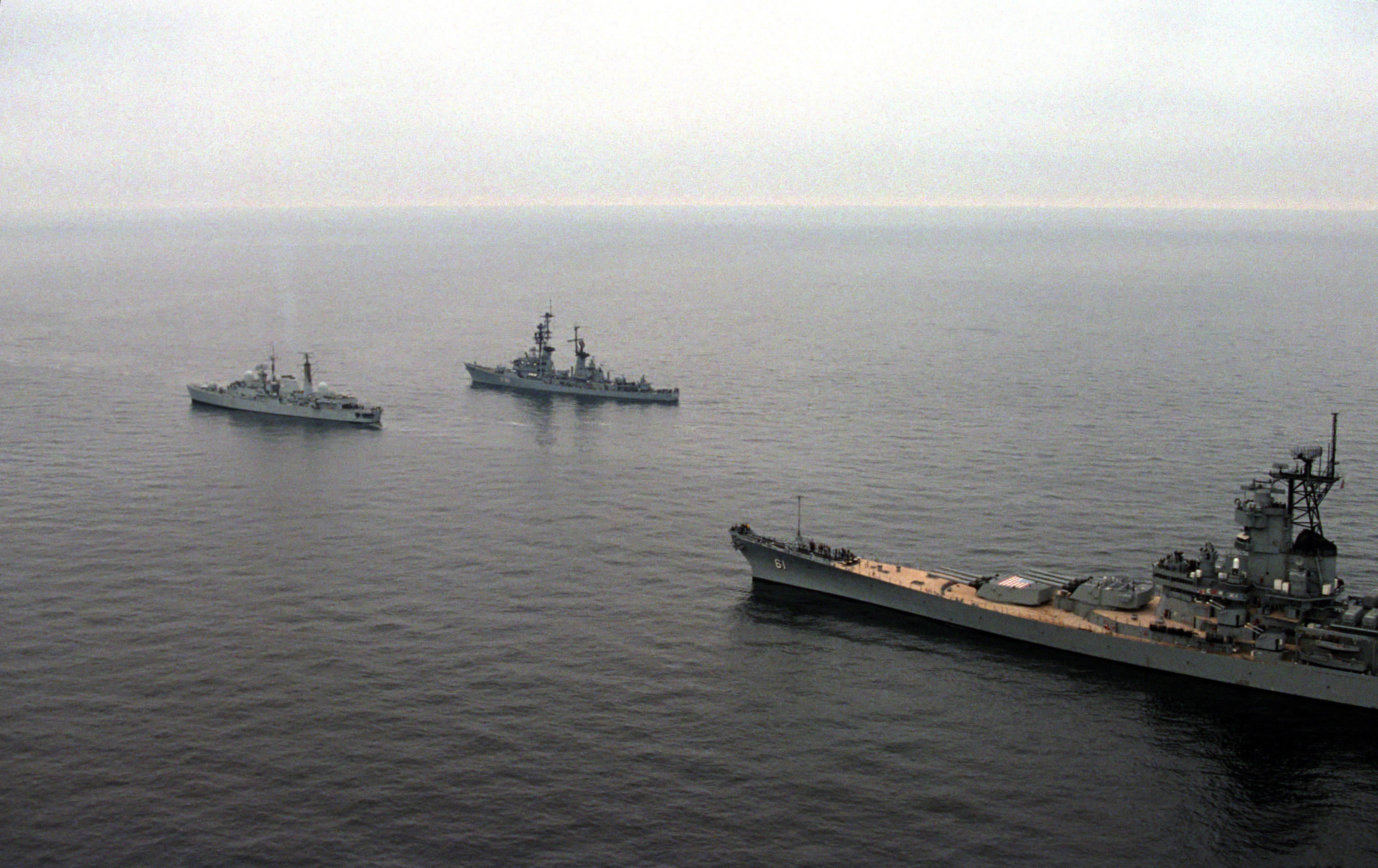 Ships of Task Group 100.1 during NATO Exercise BALTOPS'85 in October 1985. In the lead are the British destroyer HMS Liverpool (D 92) and the West German destroyer Mölders (D 186), followed by the U.S. Navy battleship USS Iowa (BB-61).